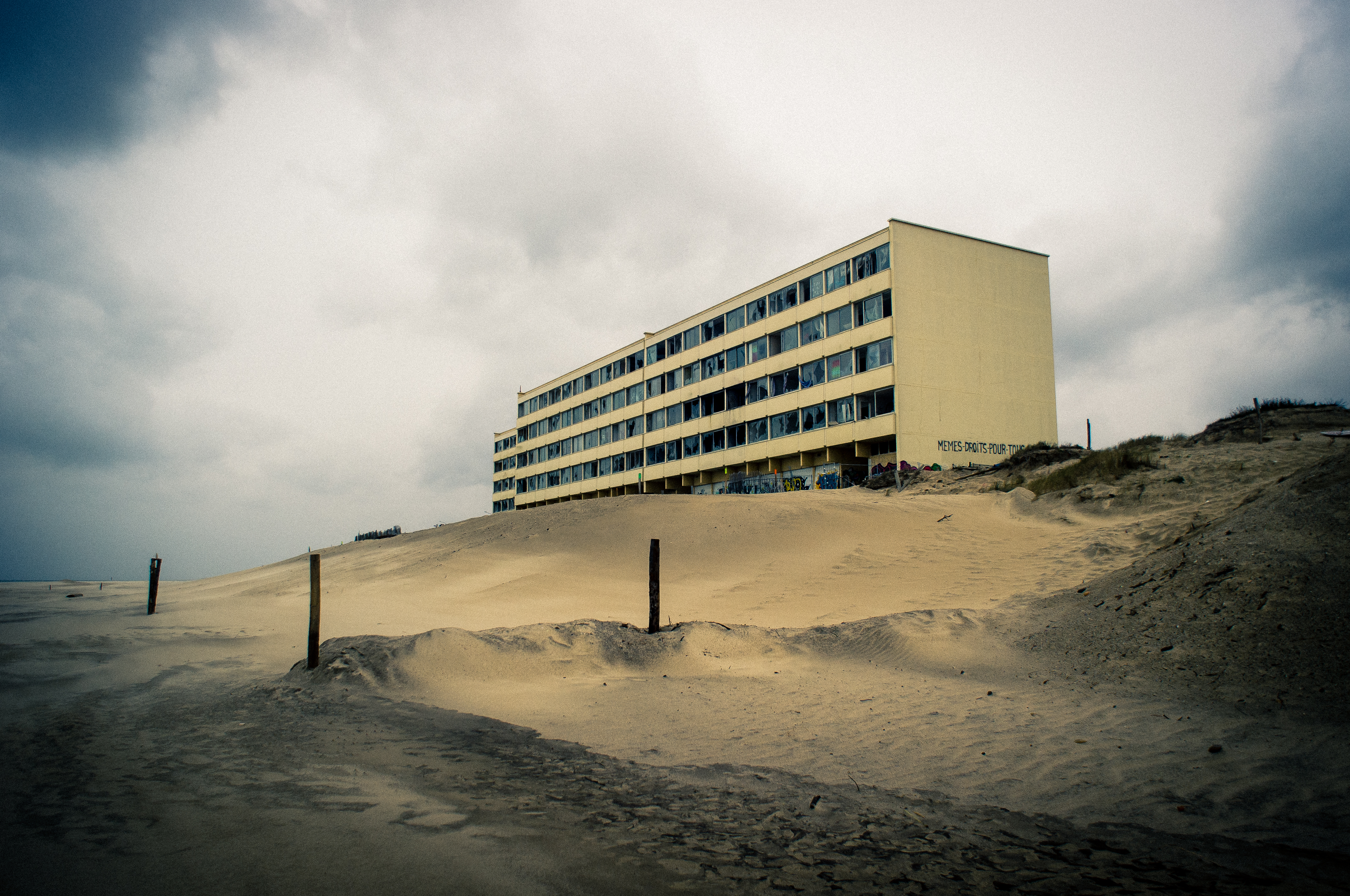 The buillding “Le Signal” at Soulac-sur-Mer in 2017.